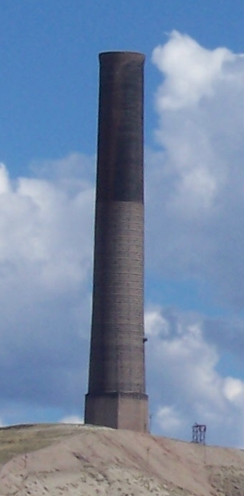 Anaconda Smelter Stack in Montana, cropped version of File:Anaconda Stack.jpg showing only the stack.